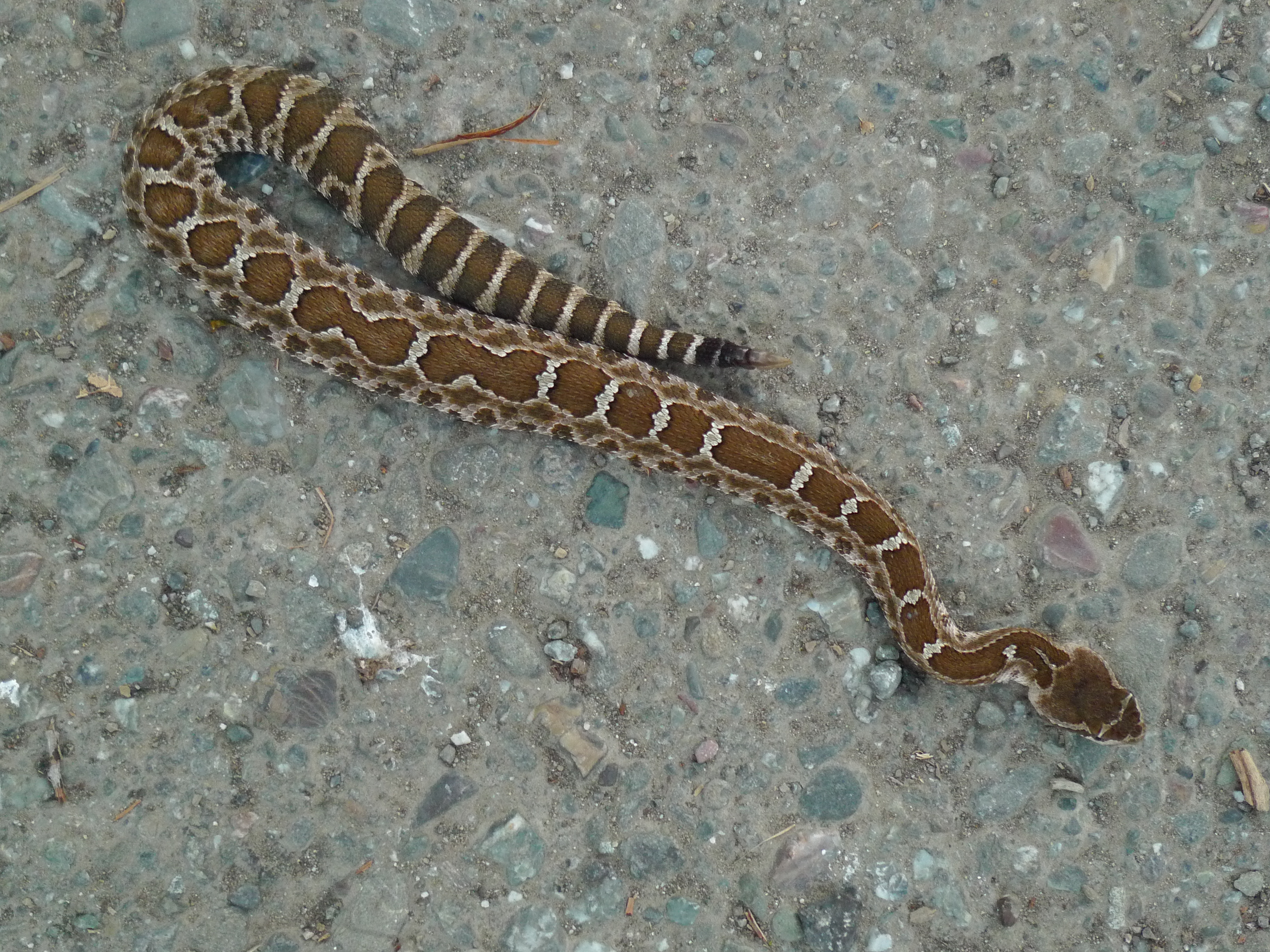 young rattlesnake warming itself on the pavement - Del Valle Regional Park, Livermore, CA. based on location, probably Crotalus oreganus